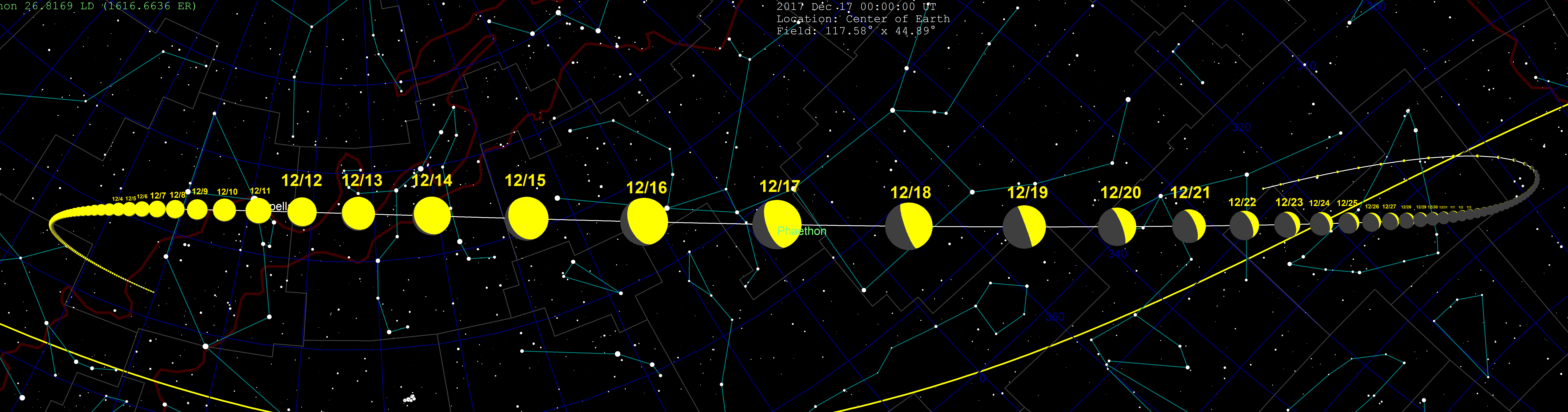 en:3200 Phaethon path in sky during December 2017, with circles for relative sizes, and daily motion